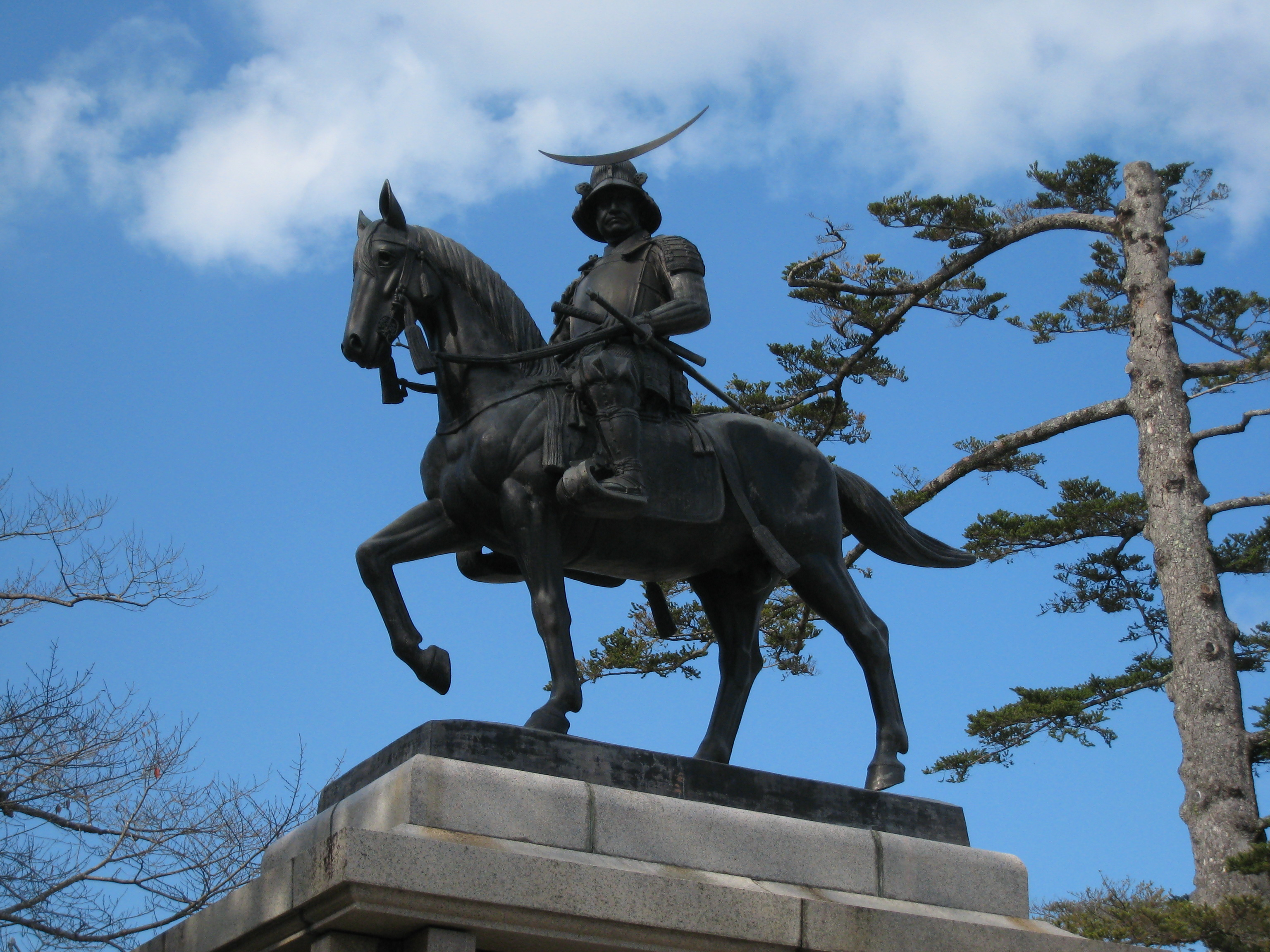 This is a famous statue of Masamune Date, located in Aoba Mountain, Sendai, Japan.